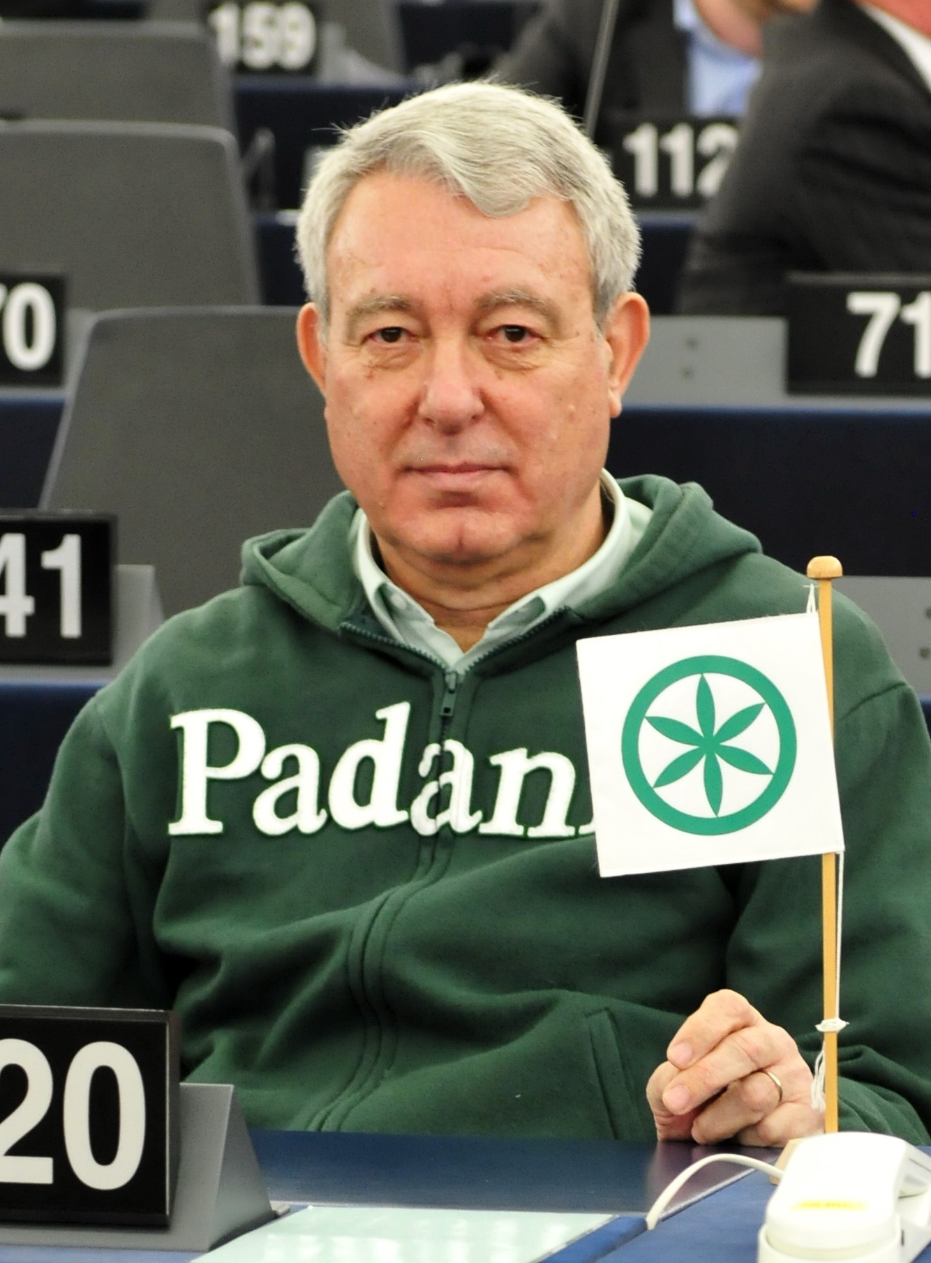 Francesco Speroni, italian politican in european parliament